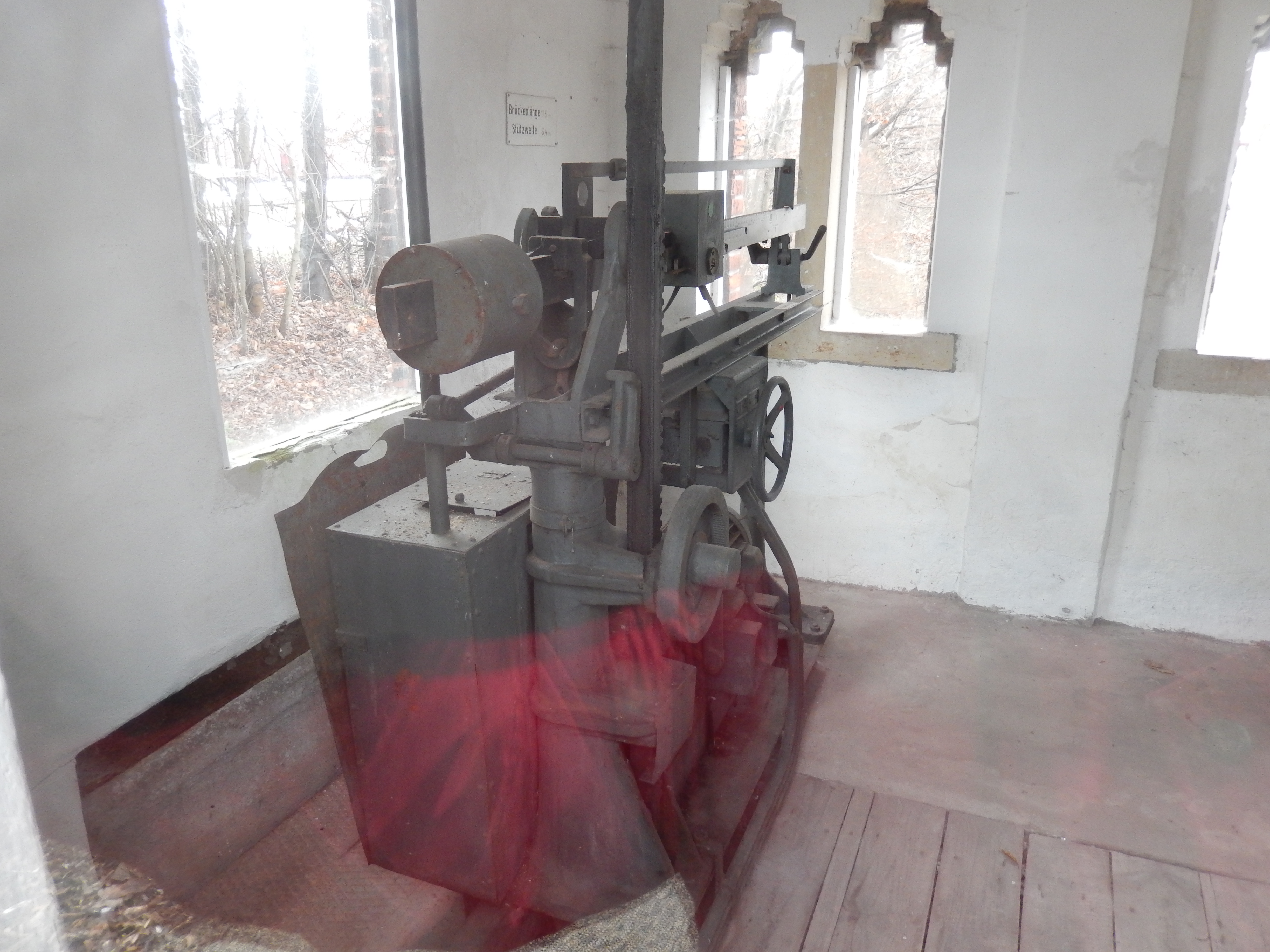 Scale near Elze Station, Germany.